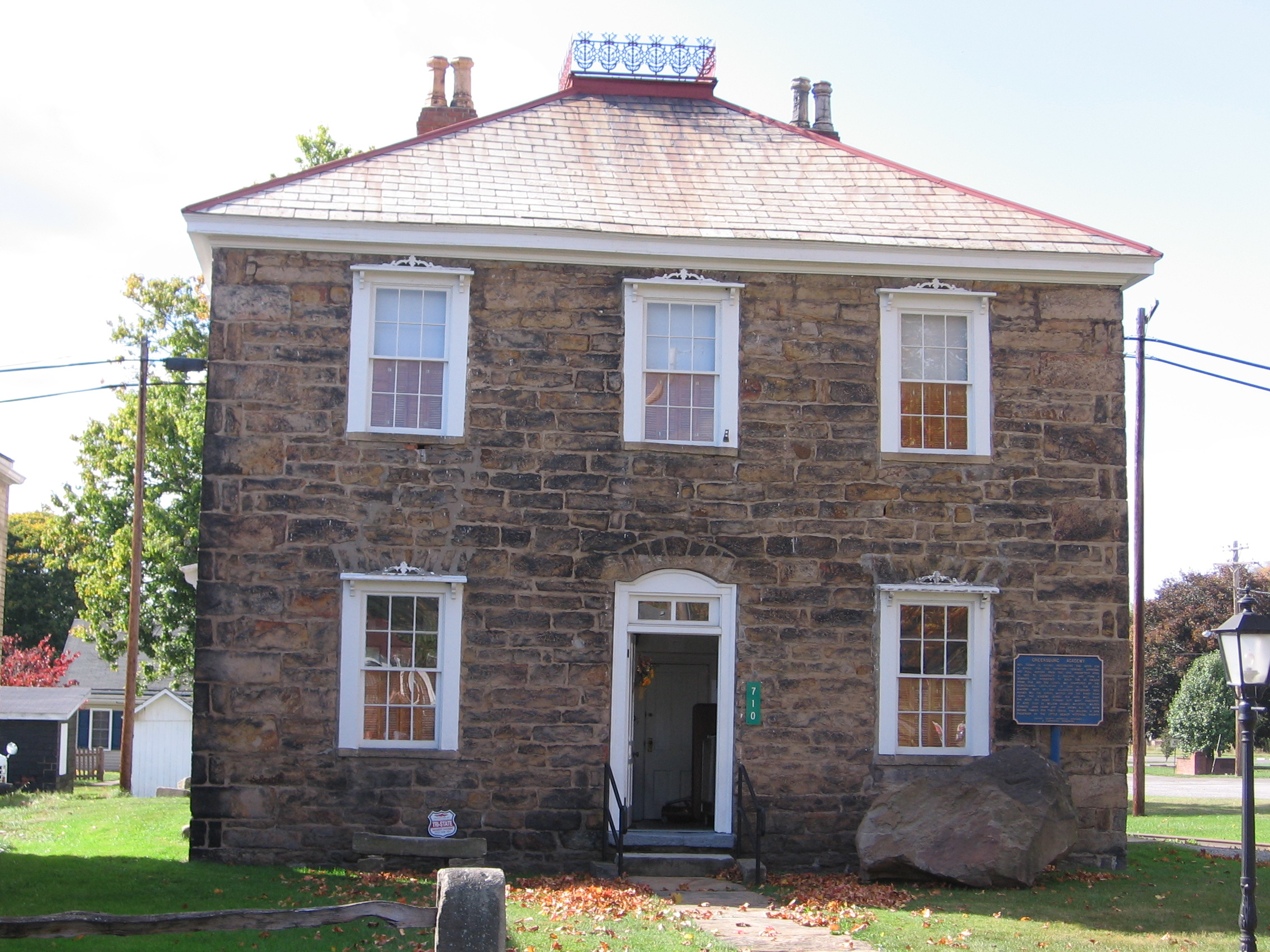 Street view of the Greersburg Academy, located along Market Street in Darlington, Pennsylvania, United States. Built in 1806, the school is listed on the National Register of Historic Places.